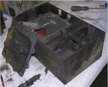 Atlantic Airways Flight 670: Cockpit voice recorder.